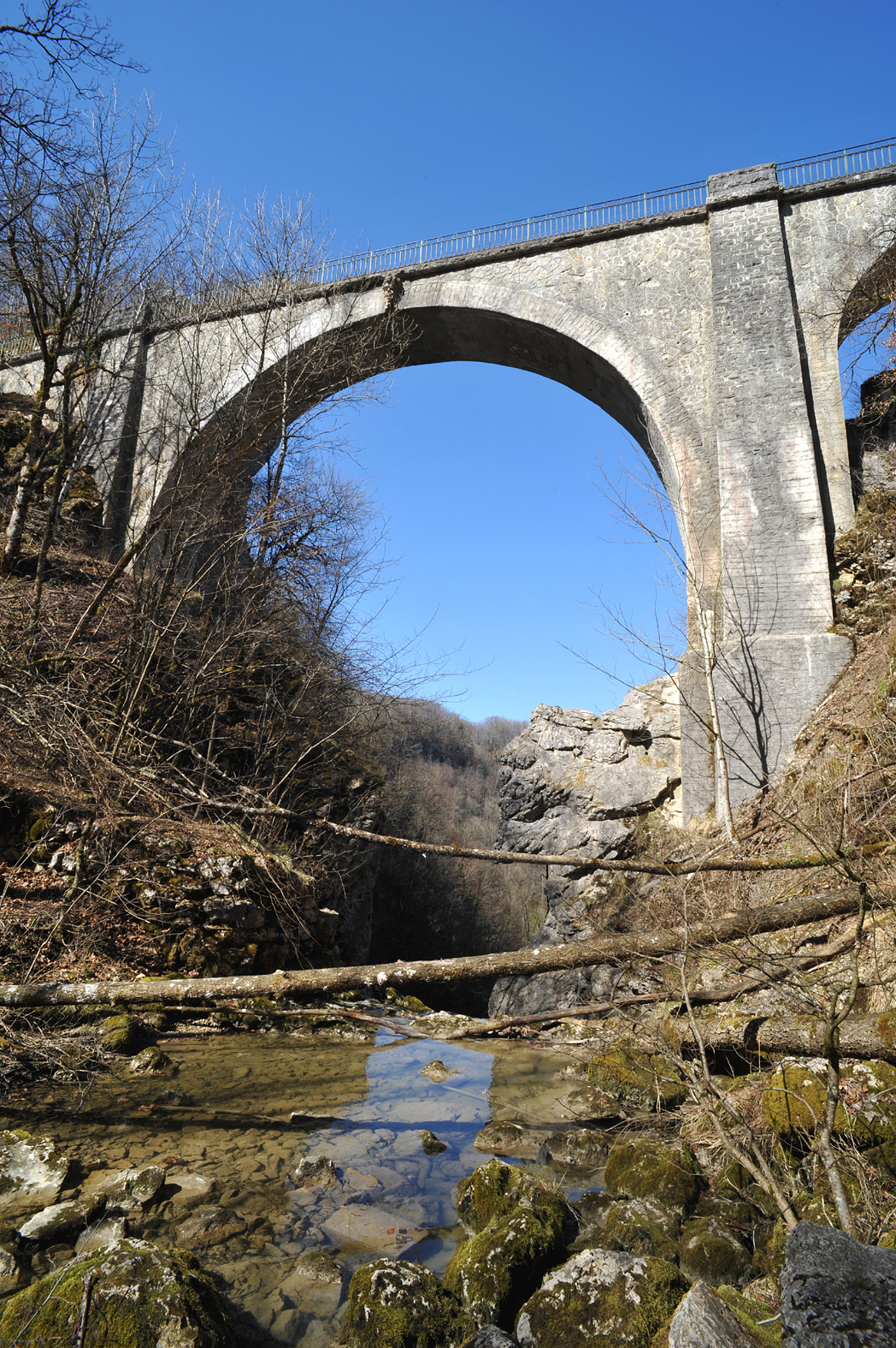 Pont du Diable (Devil's bridge) crossing stream Petit Lison near Crouzet-Migette; Doubs, France.